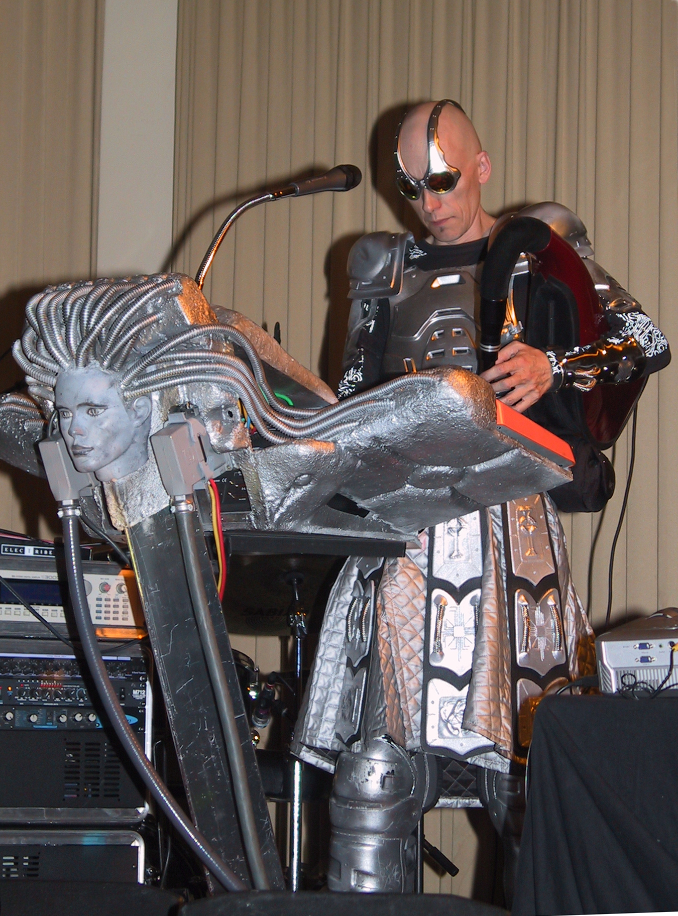 Pit Vinandy alias Cyberpiper